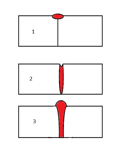 Гибридная сварка